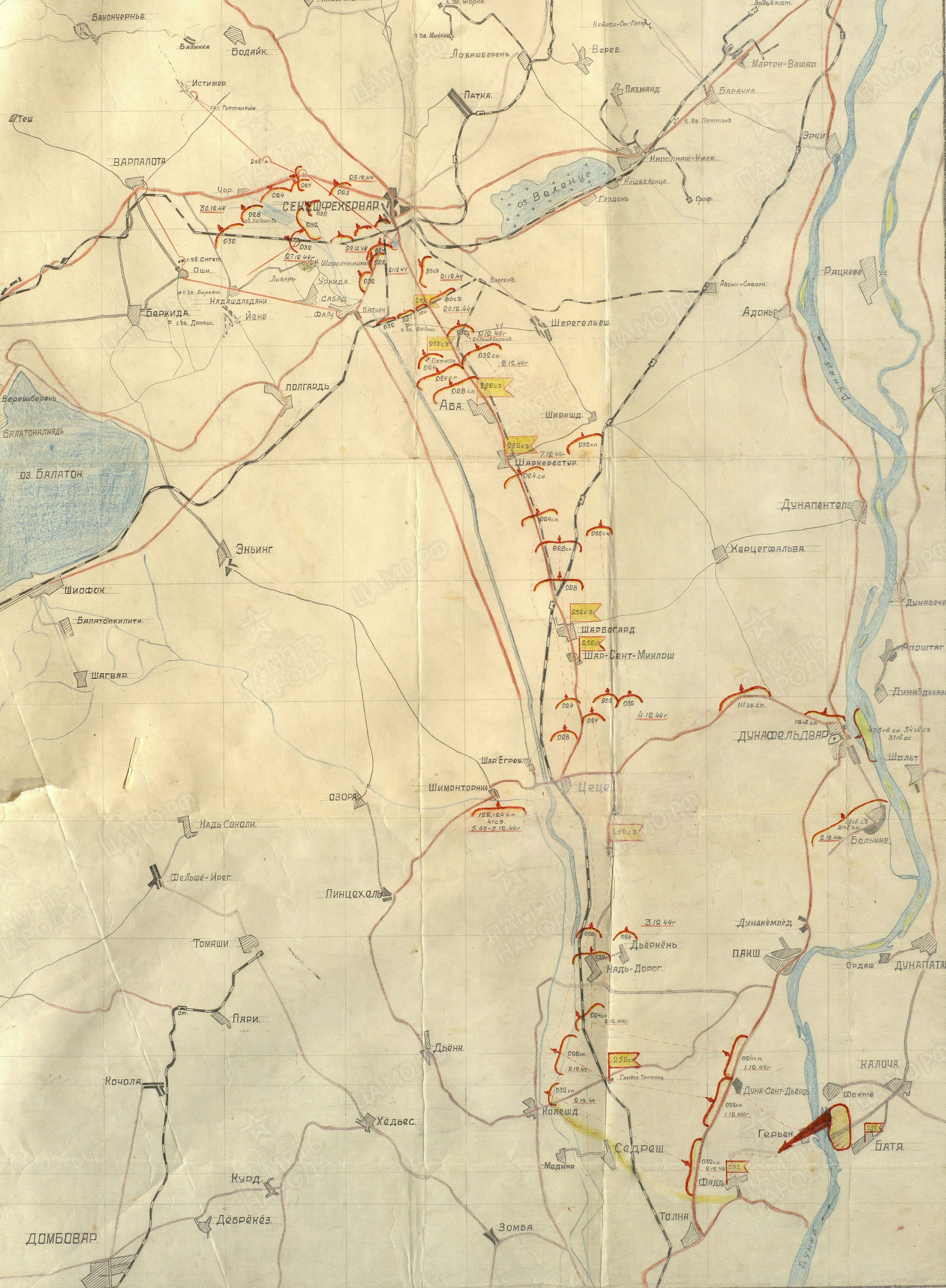 Positions of the 252nd Rifle Division from the Danube to Székesfehérvár, 30 November 1944 to 1 January 1945